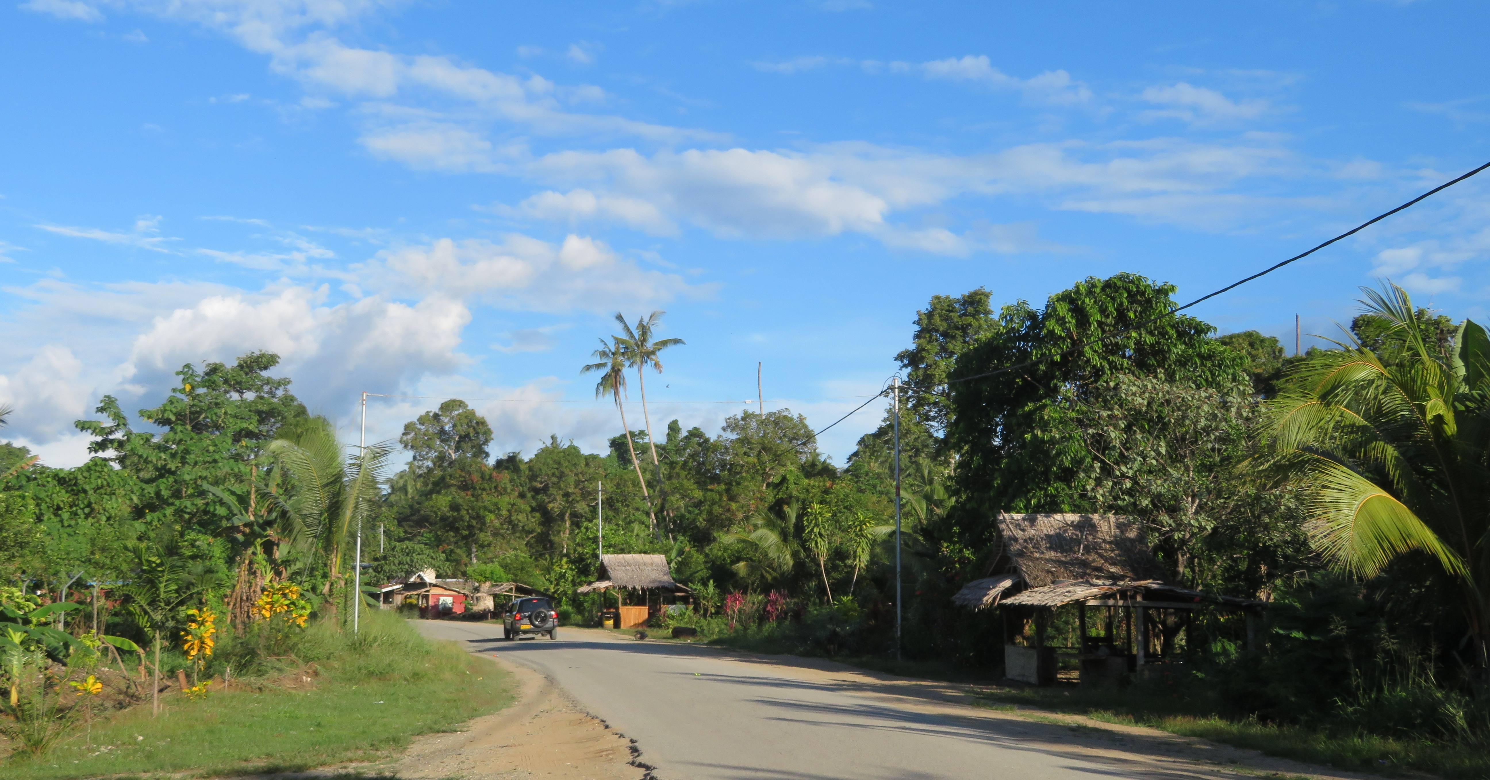 Main Street, Tamboko, Guadalcanal Island, Solomon Islands